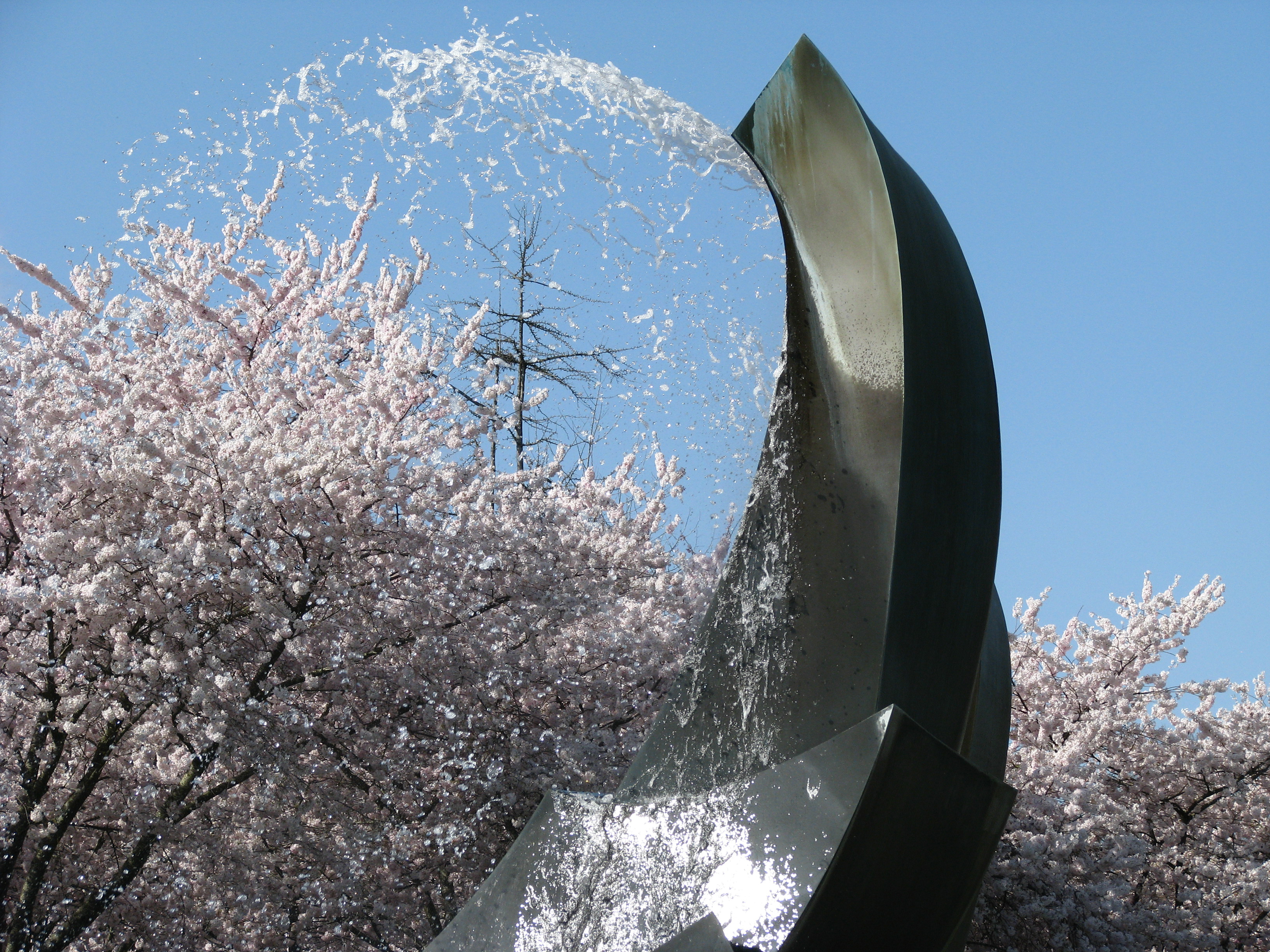 Cherry blossoms on the Capitol Mall by Jeff Towers